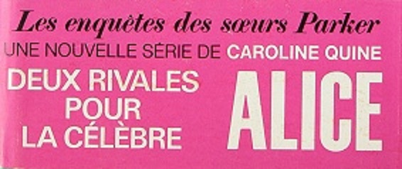 "The Dana Girls" : 1968 French ad.